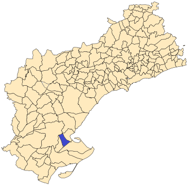 Camarles